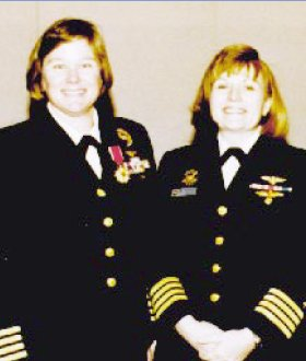 Capt. Jane Skiles O’Dea, was the Navy’s senior woman aviator at the time of her 11 April 1997 retirement ceremony. One of the initial group of six women to complete Navy flight training, O’Dea received her wings in April 1974. She was the first to achieve command (Navy Recruiting District, Indianapolis) and to be selected for the rank of captain. Pictured with her was flight school classmate Capt. Rosemary Conatser Mariner to her left.